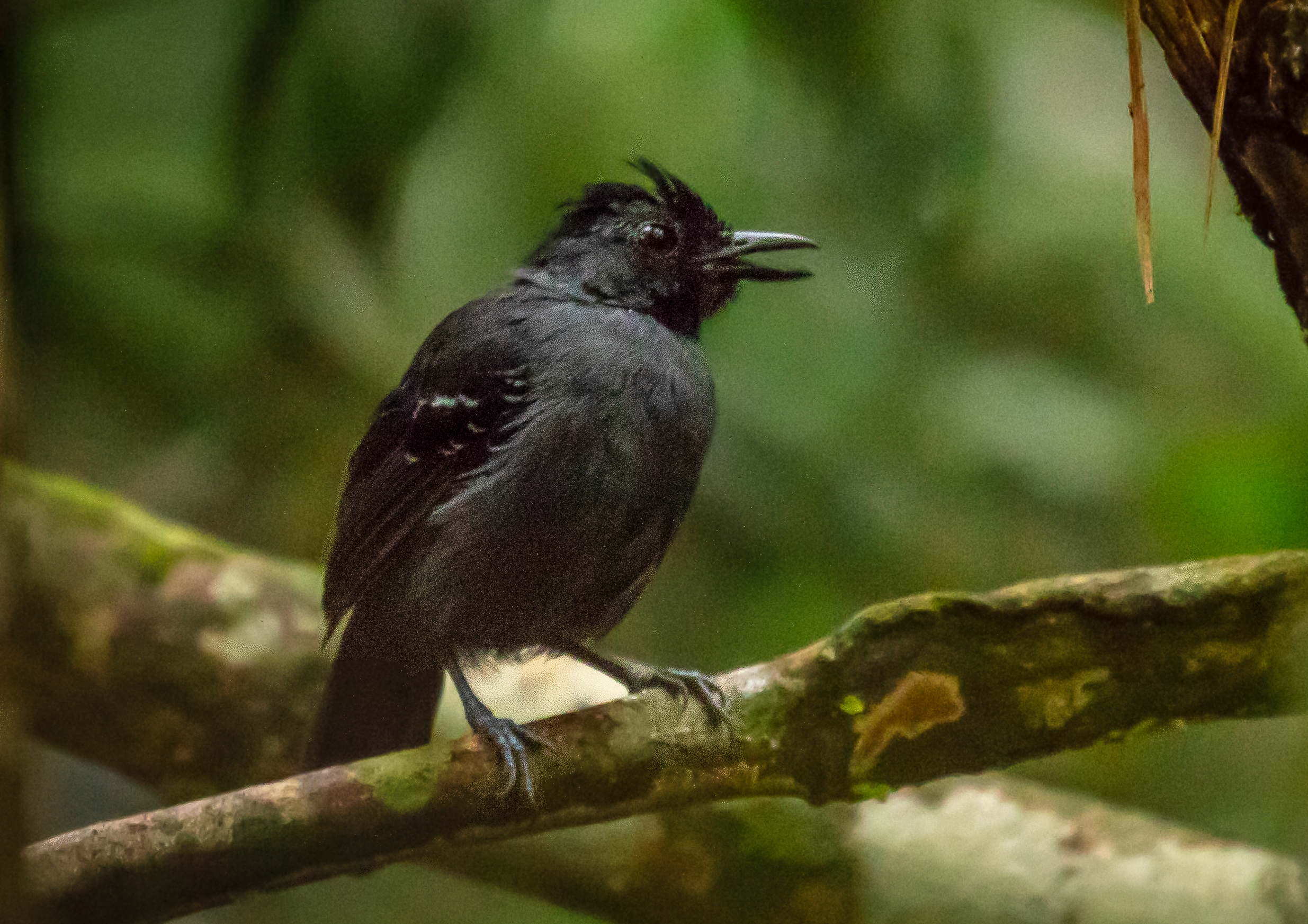 Black-headed antbird (male), Presidente Figueiredo, Amazonas, Brazil